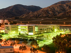 A view of the newest, most high-tech architectual building at Cal State San Bernardino opened in September 2008.